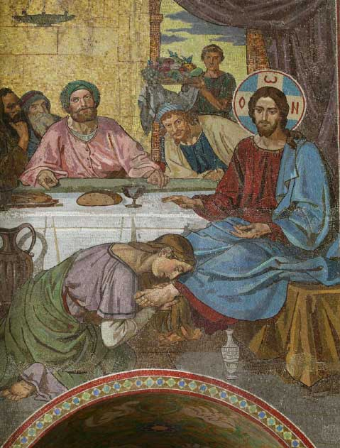 Firs Sergeyevich Zhuravlev (1836-1901) Christ at the Pharisee